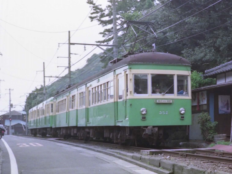 Enoshima Electric Railway type 300 No.352